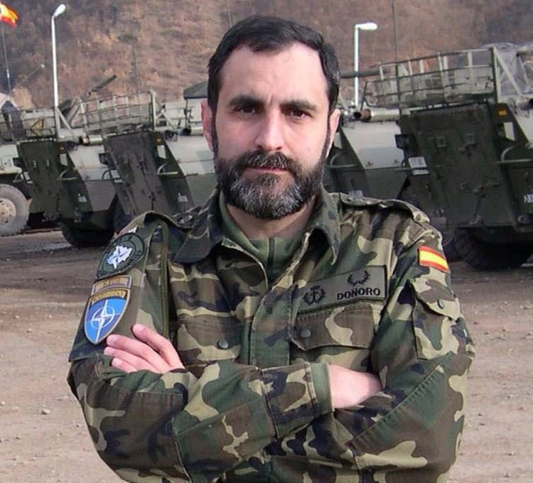 Imagen de Ignacio María Doñoro